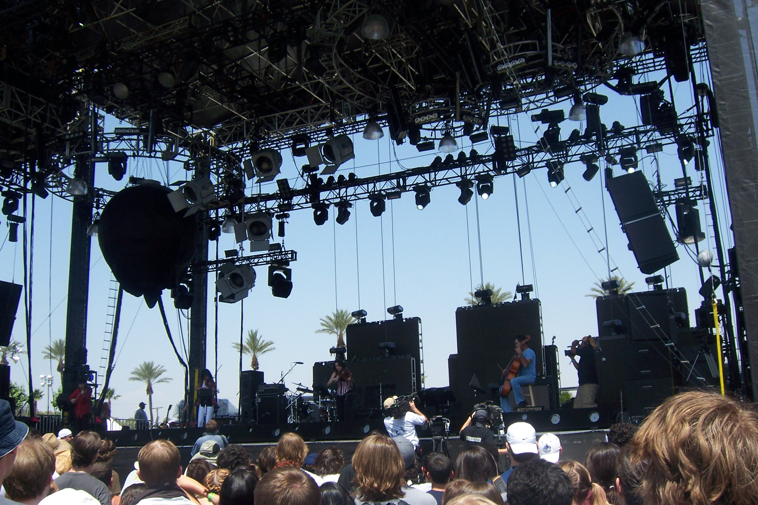 2006 Coachella Valley Music and Arts Festival at the Empire Polo Club in Indio, California